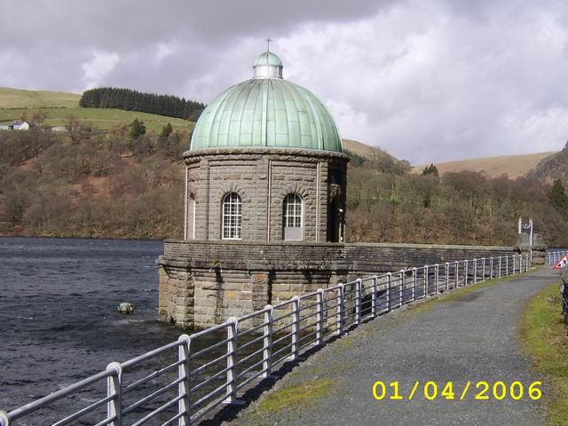 Foel Tower Elan Valley. Part of the Elan Valley Aqueduct that feeds drinking water from Foel Tower Elan Valley to Franckley Reservoir in Birmingham, for more information visit: 145136